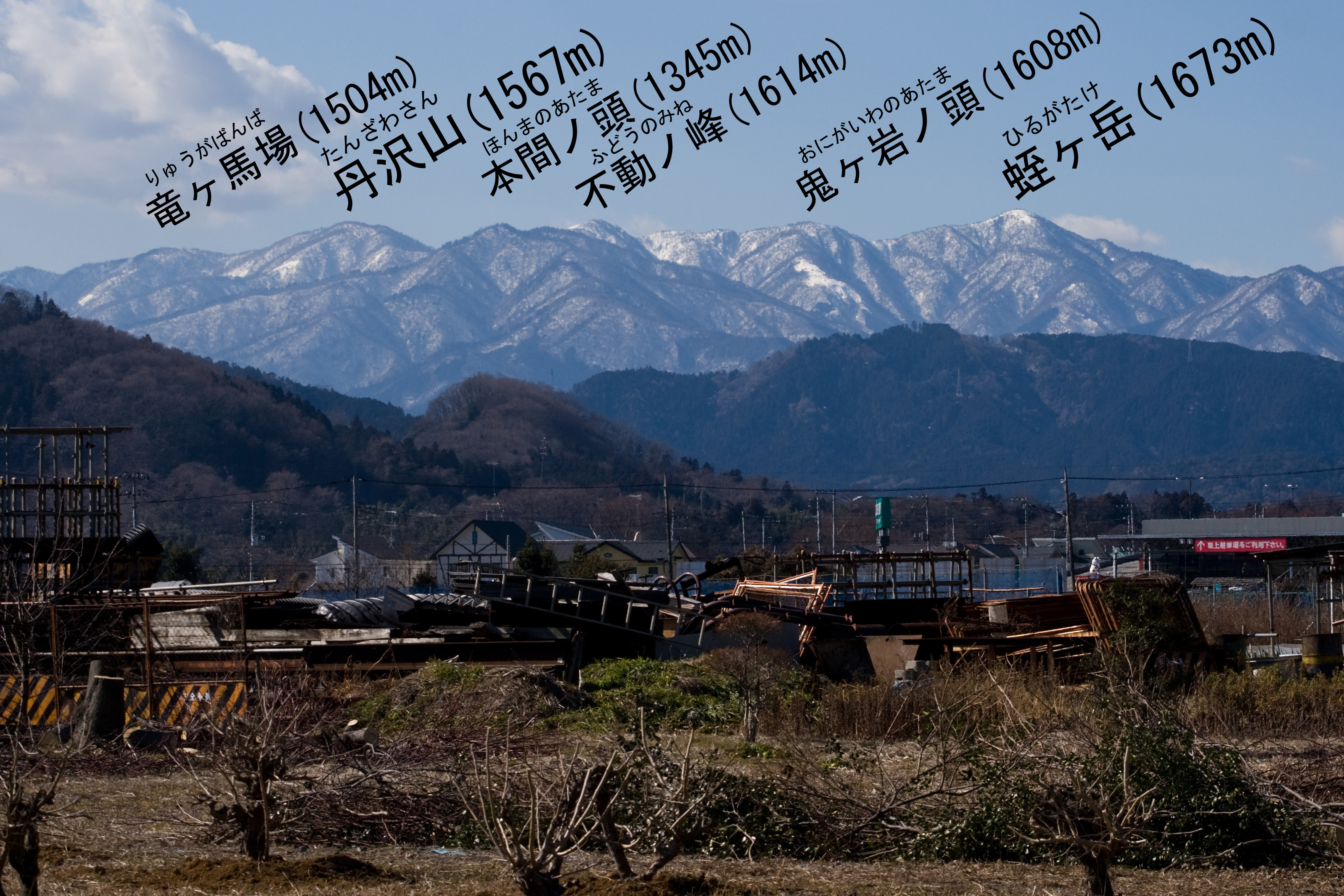 View of Tanzawa Mountains from Sagamihara city, Kanagawa, Japan.